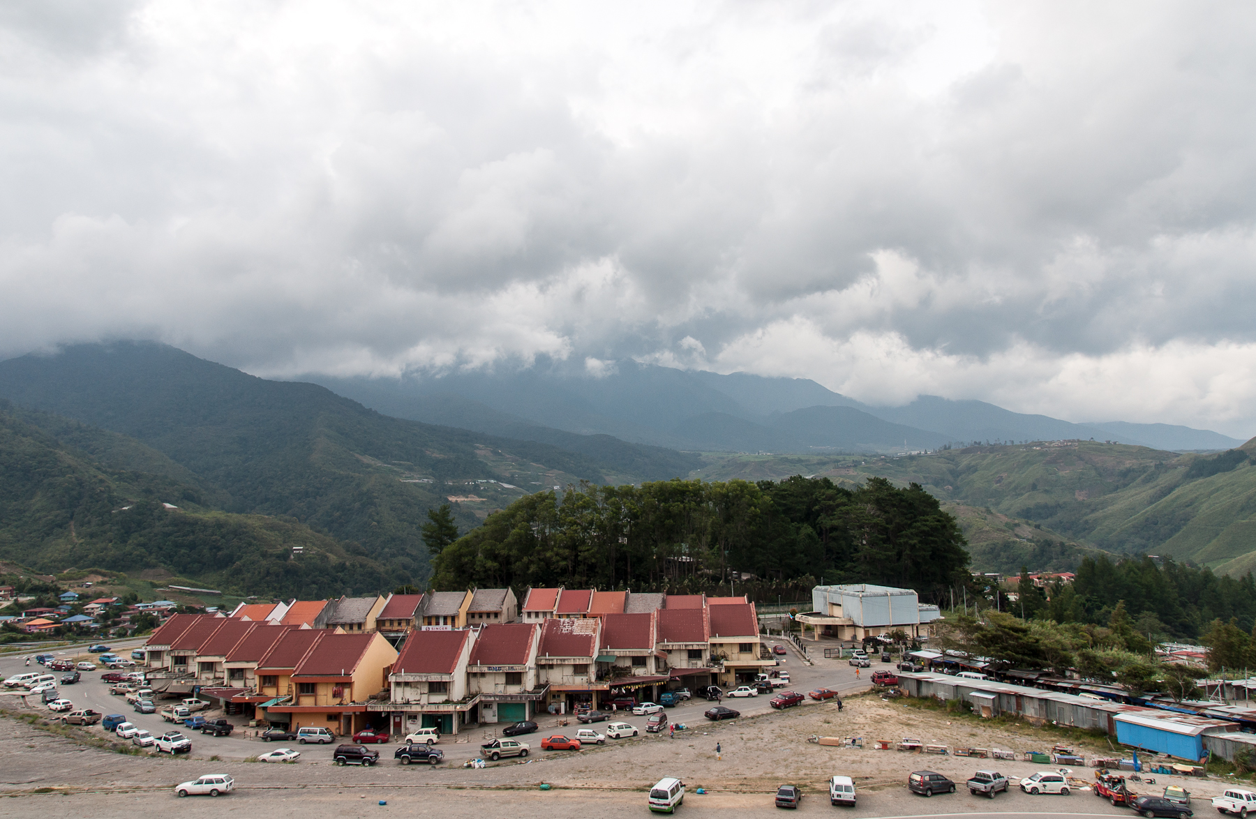 Kundasang, Sabah, Malaysia